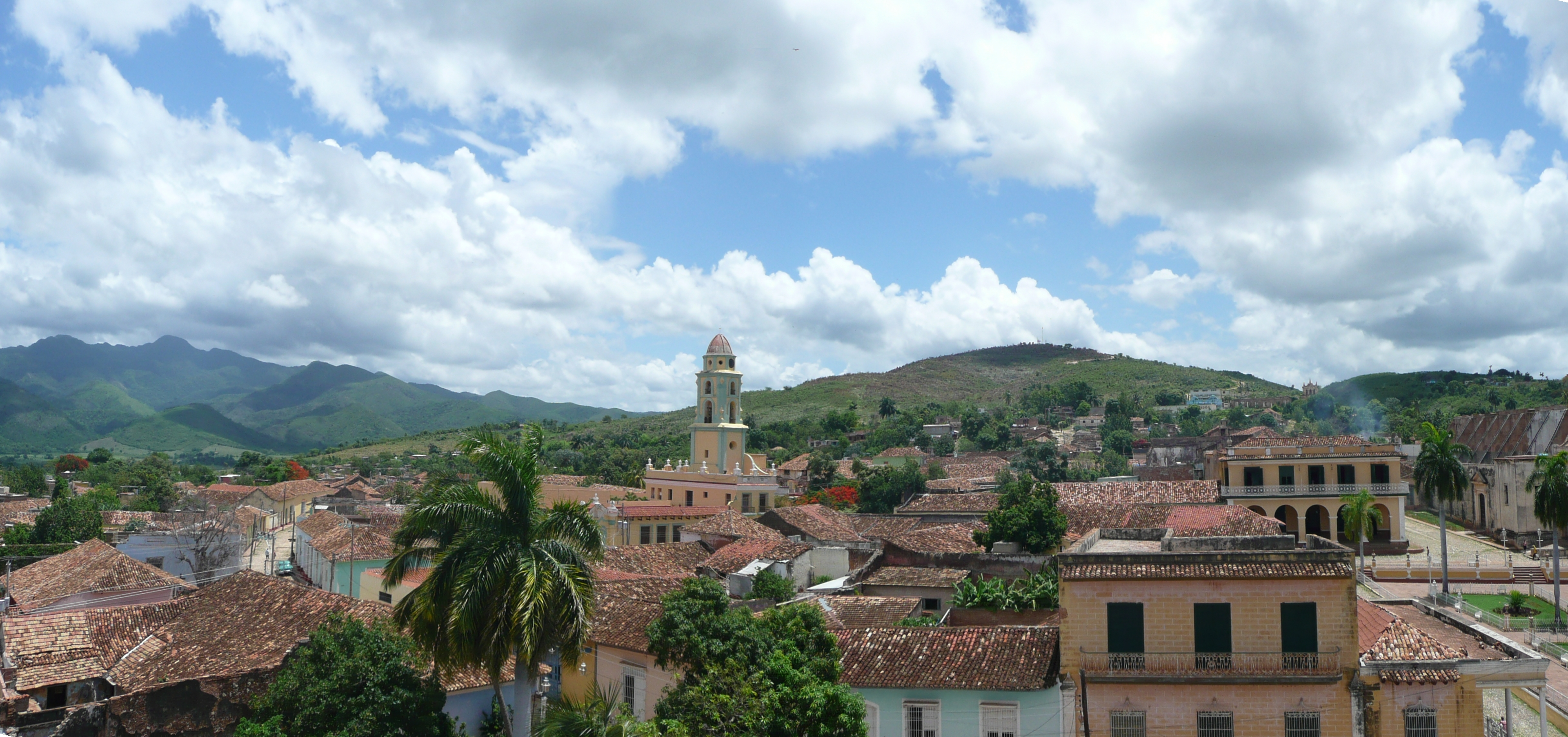 Picture of Tinidad (Cuba) - "Saint François d'Assise" Church